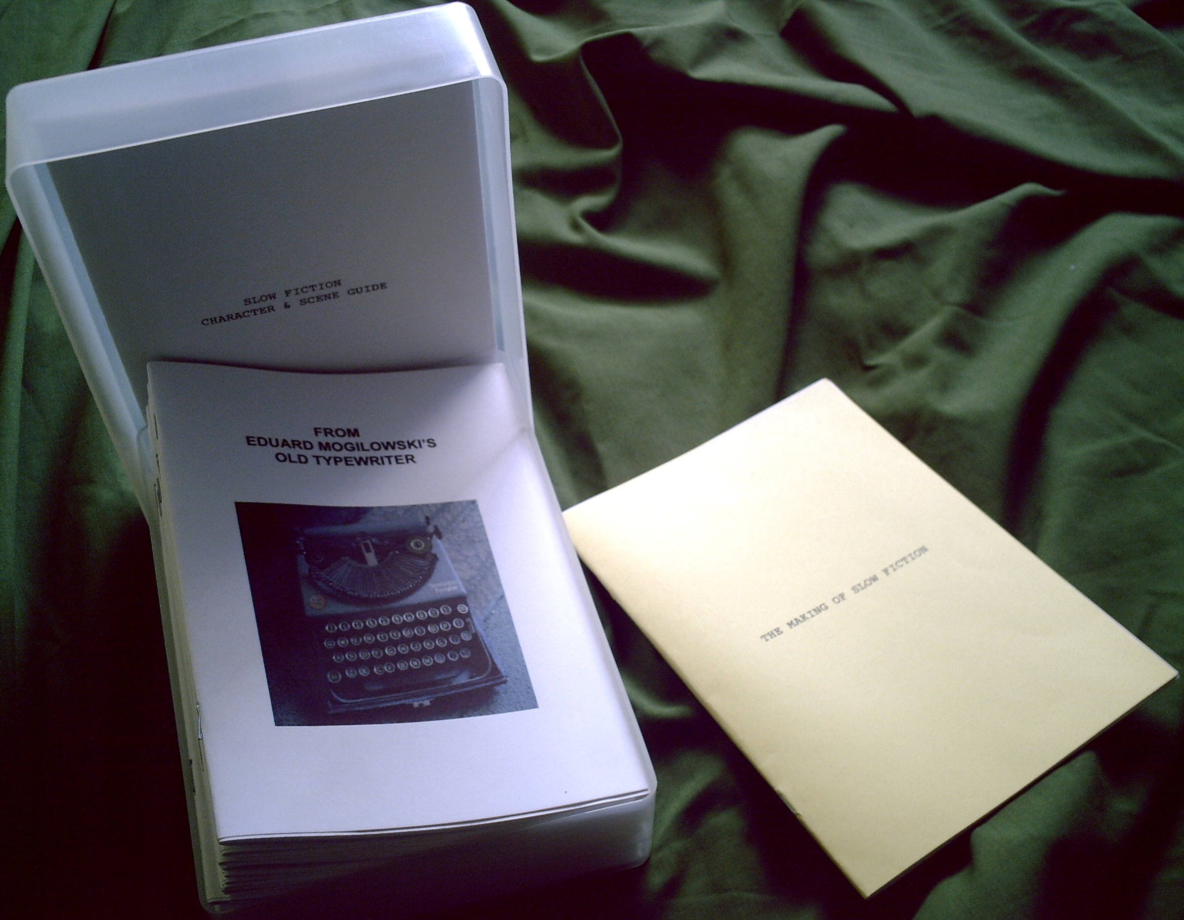 Home'Baked Books/twenty-three tales in a box